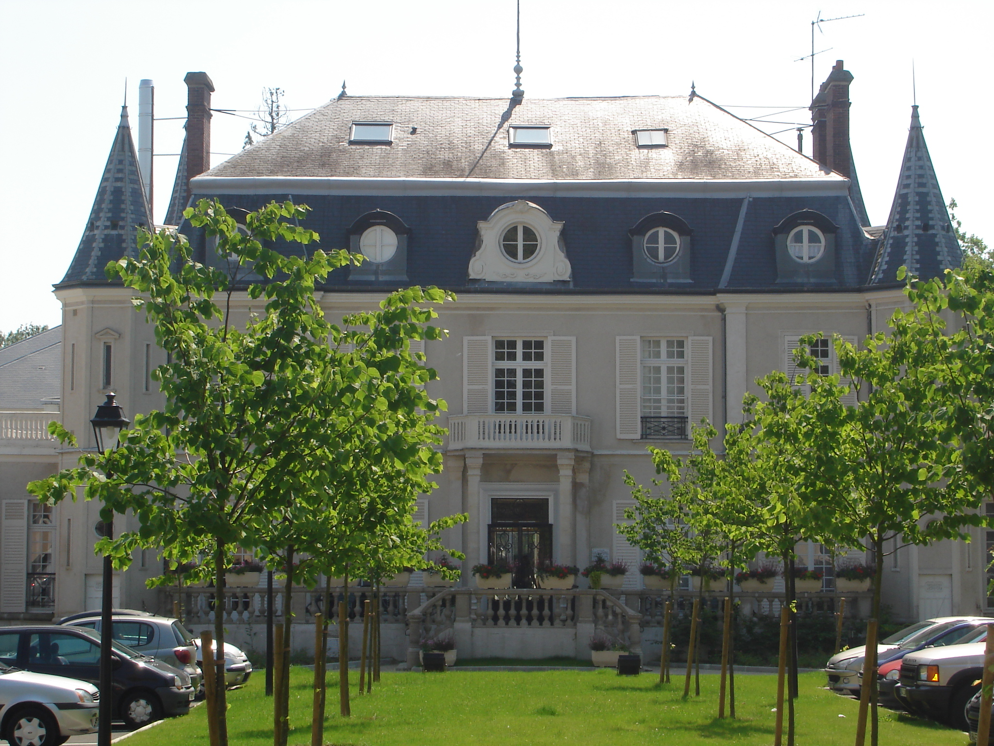 "Chateau de Louche": One of the 3 manors in the French village of Annet-sur-Marne in Île de France (France). Presently used as an old people's home.